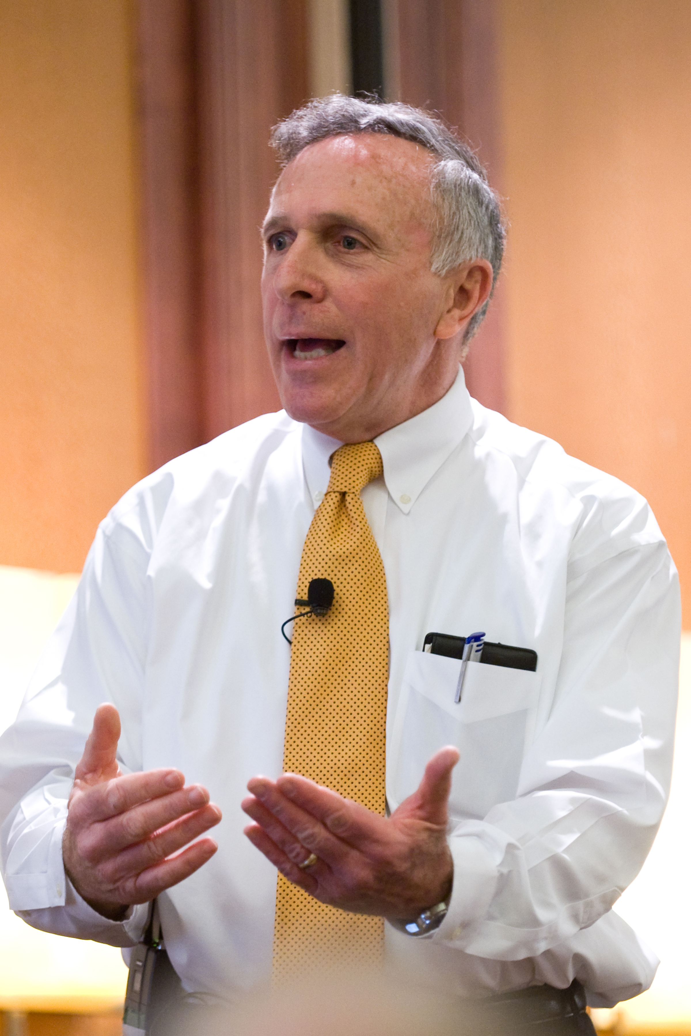 Ron at speaking engagement